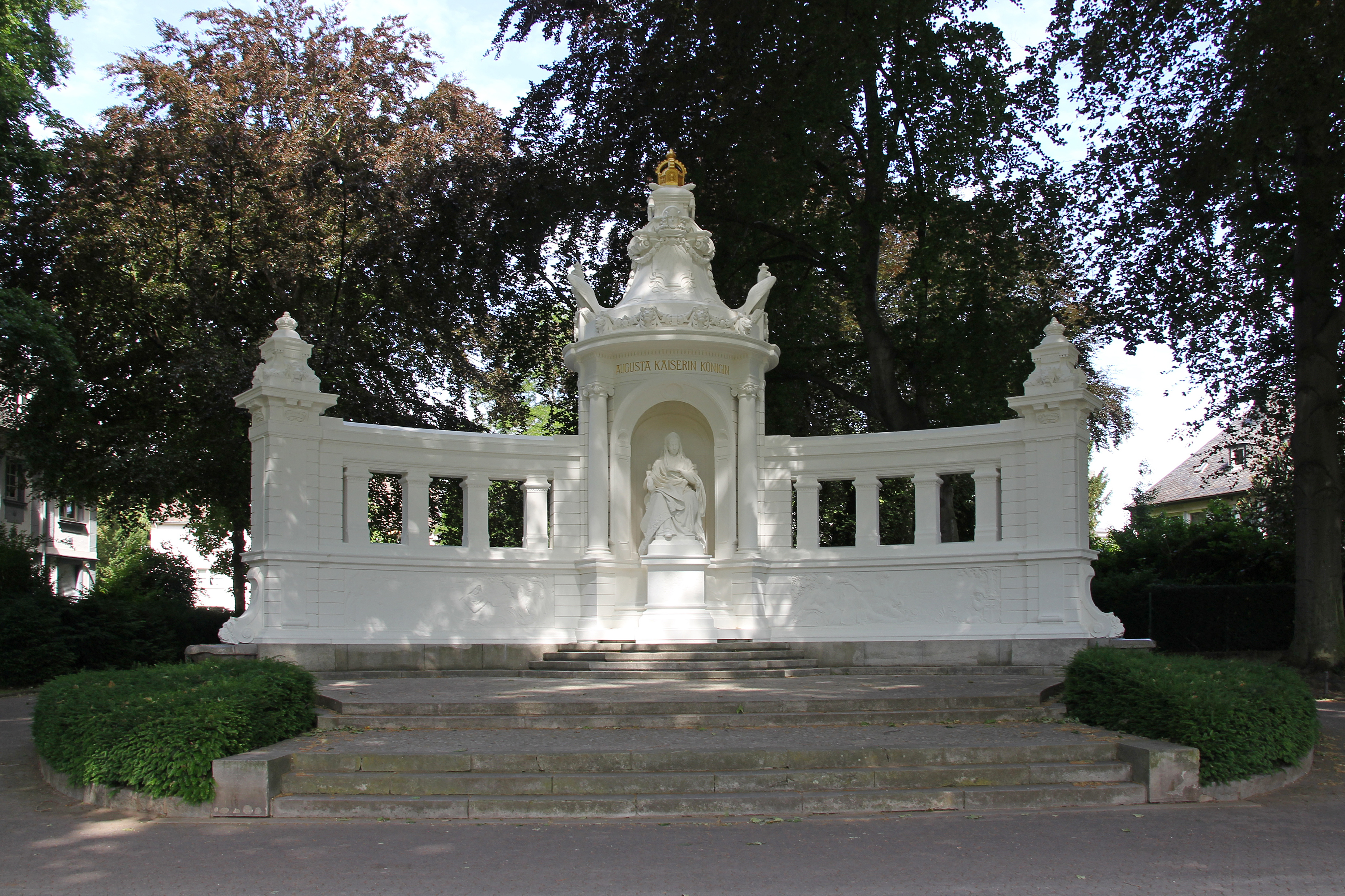 Augusta-Monument in the rhine park of Koblenz